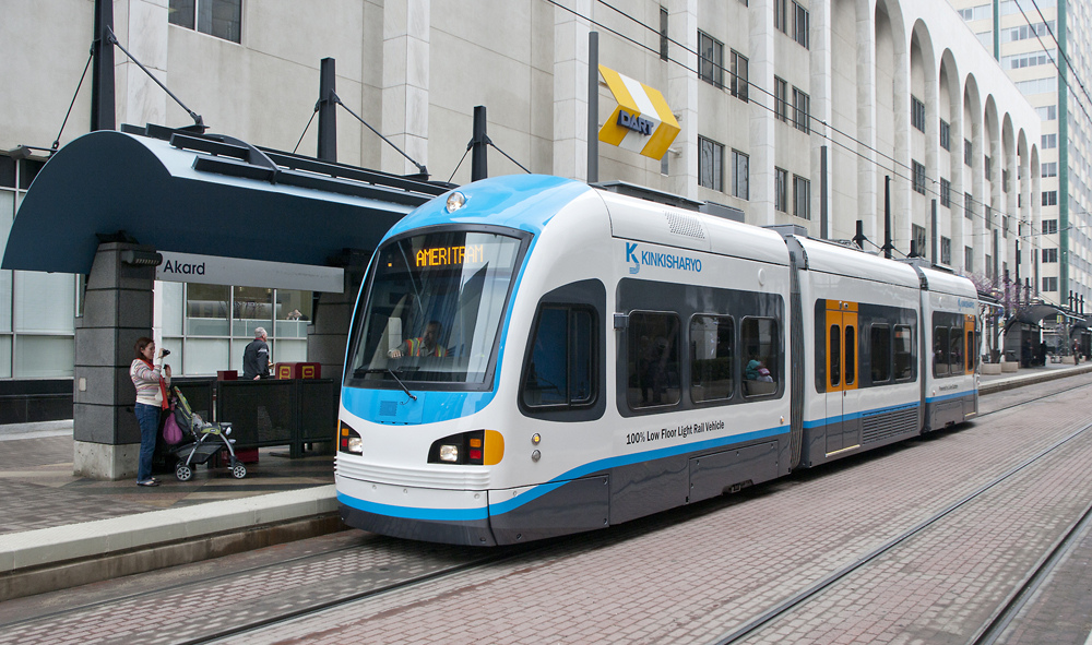 ameriTRAM by Kinki Sharyo at Akard station in downtown Dallas